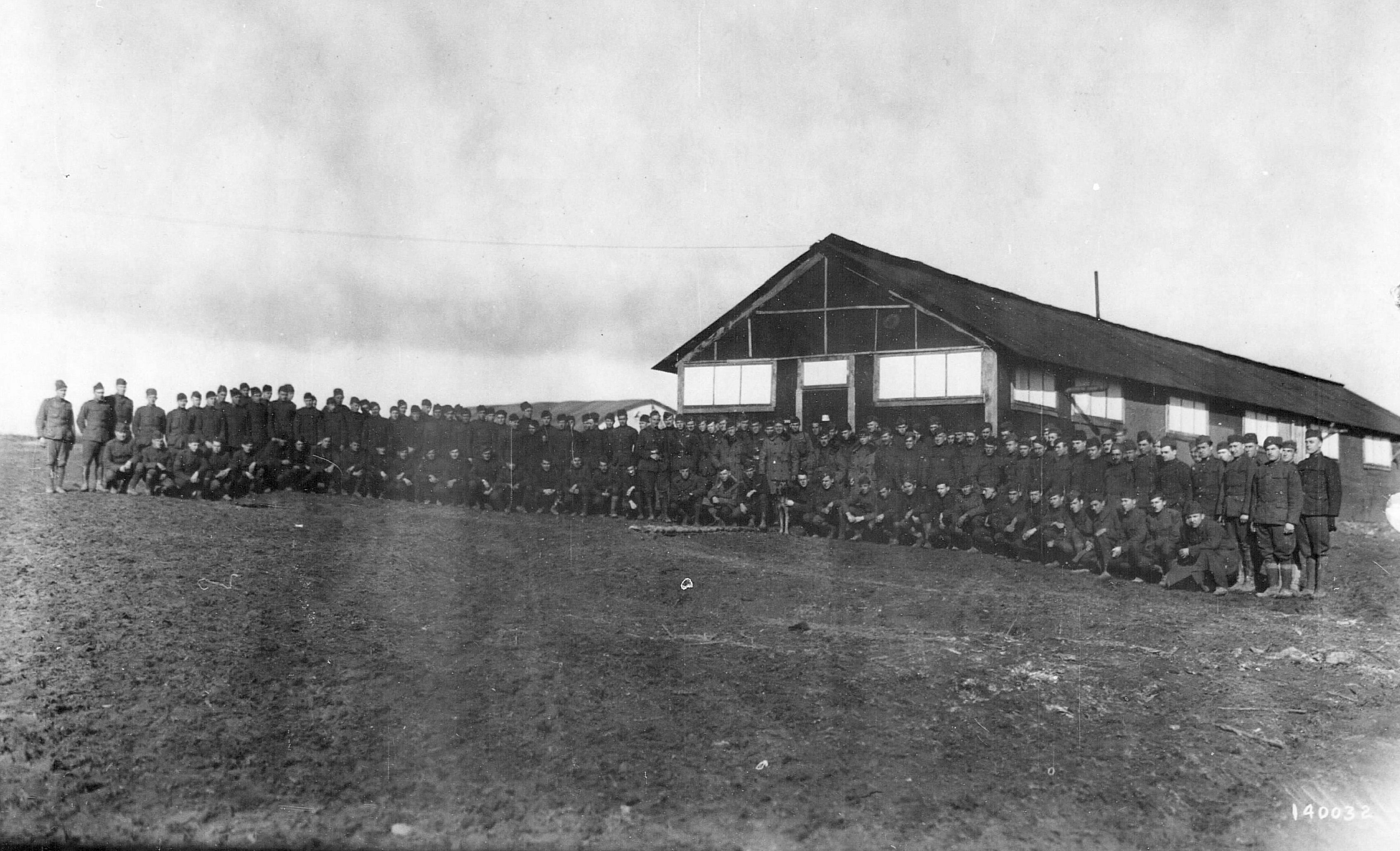 Men (and mascott dog) of the 49th Aero Squadron, November 1918